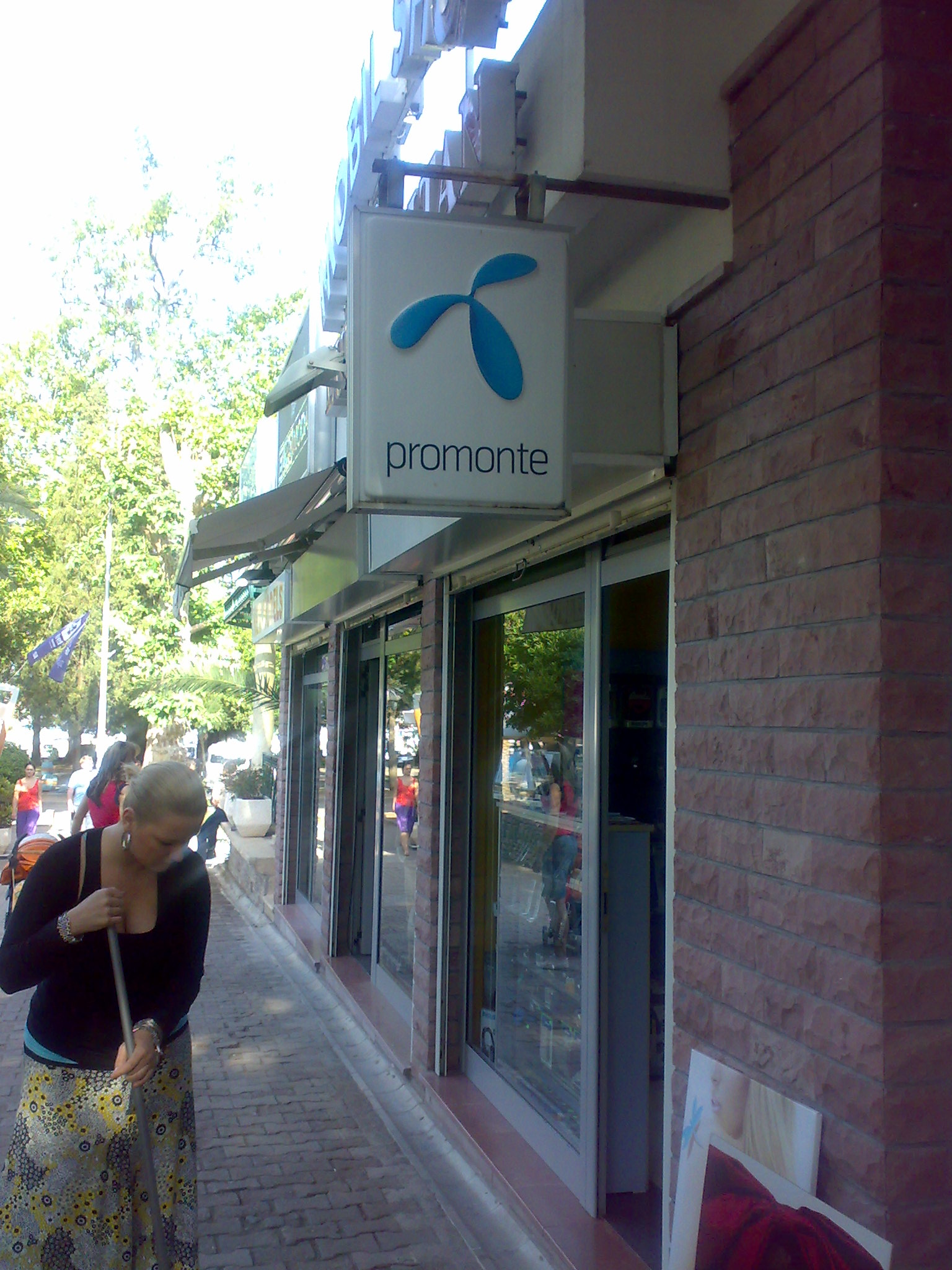 promonte shop in Budva, Montenegro